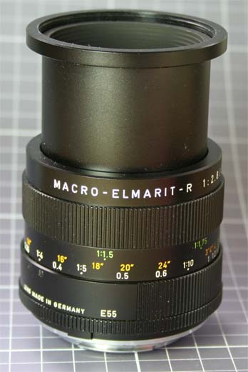 Leica Elmarit-R macro lens